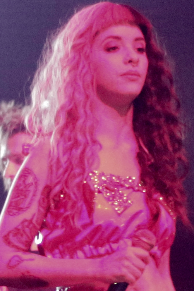 Cropped version of this image.